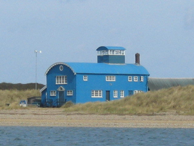 The Old Lifeboat station, Blakeney